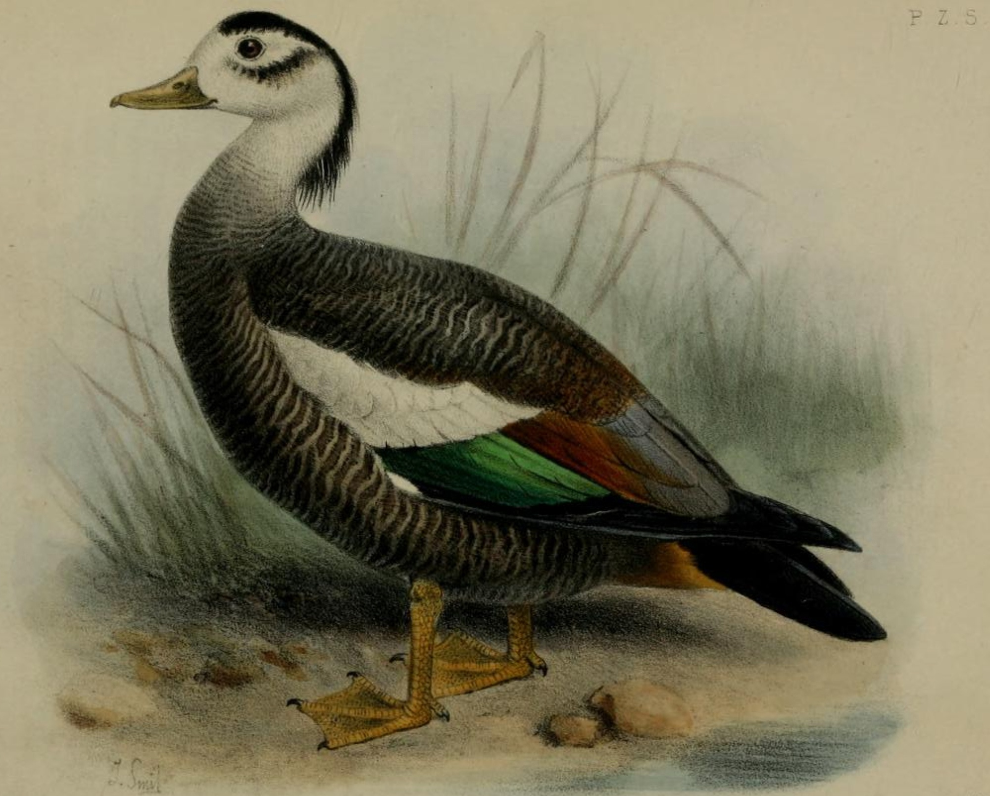 An illustration of a male Crested Shelduck, from its initial description as a hybrid